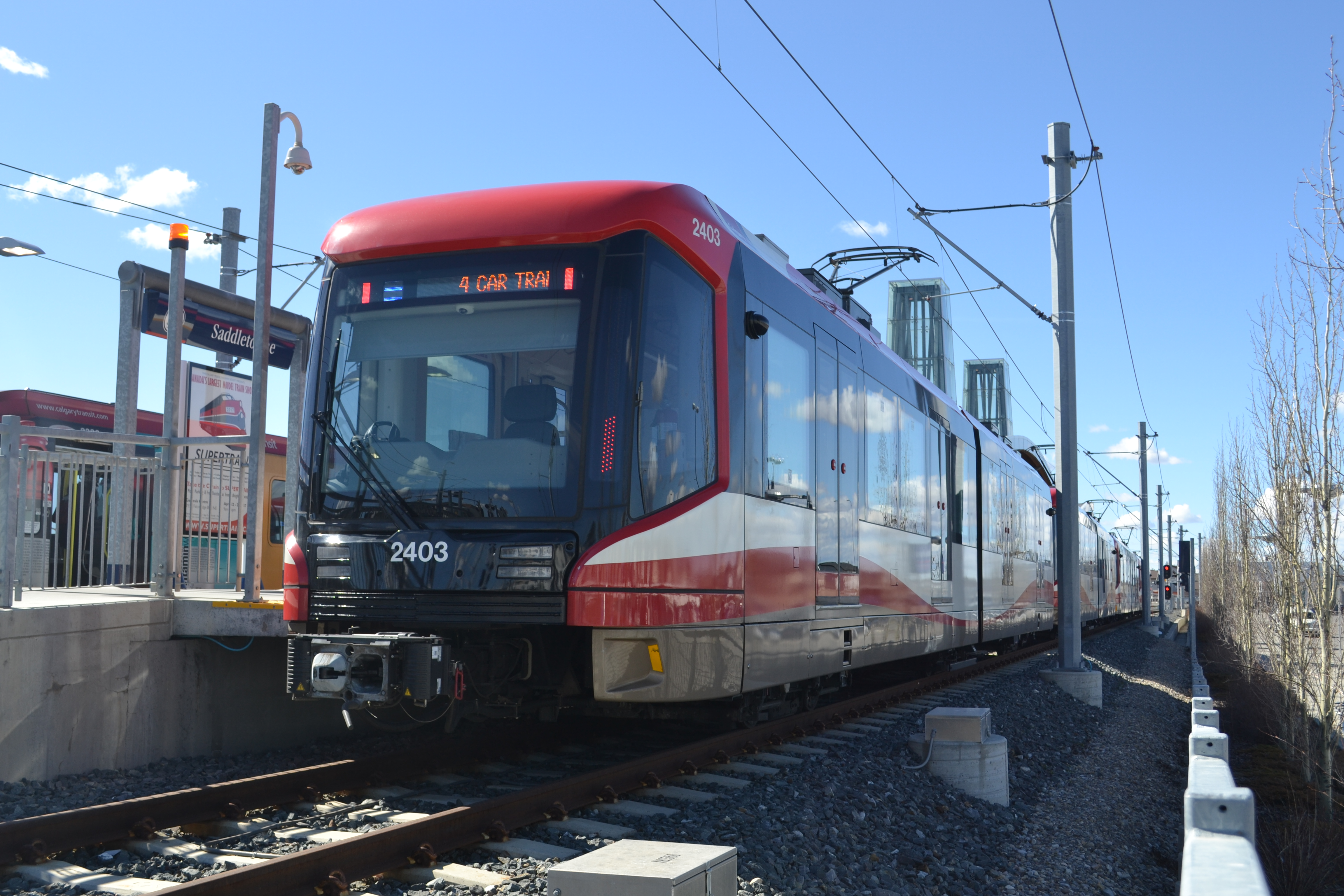 A Siemens S200 high floor variant in Calgary